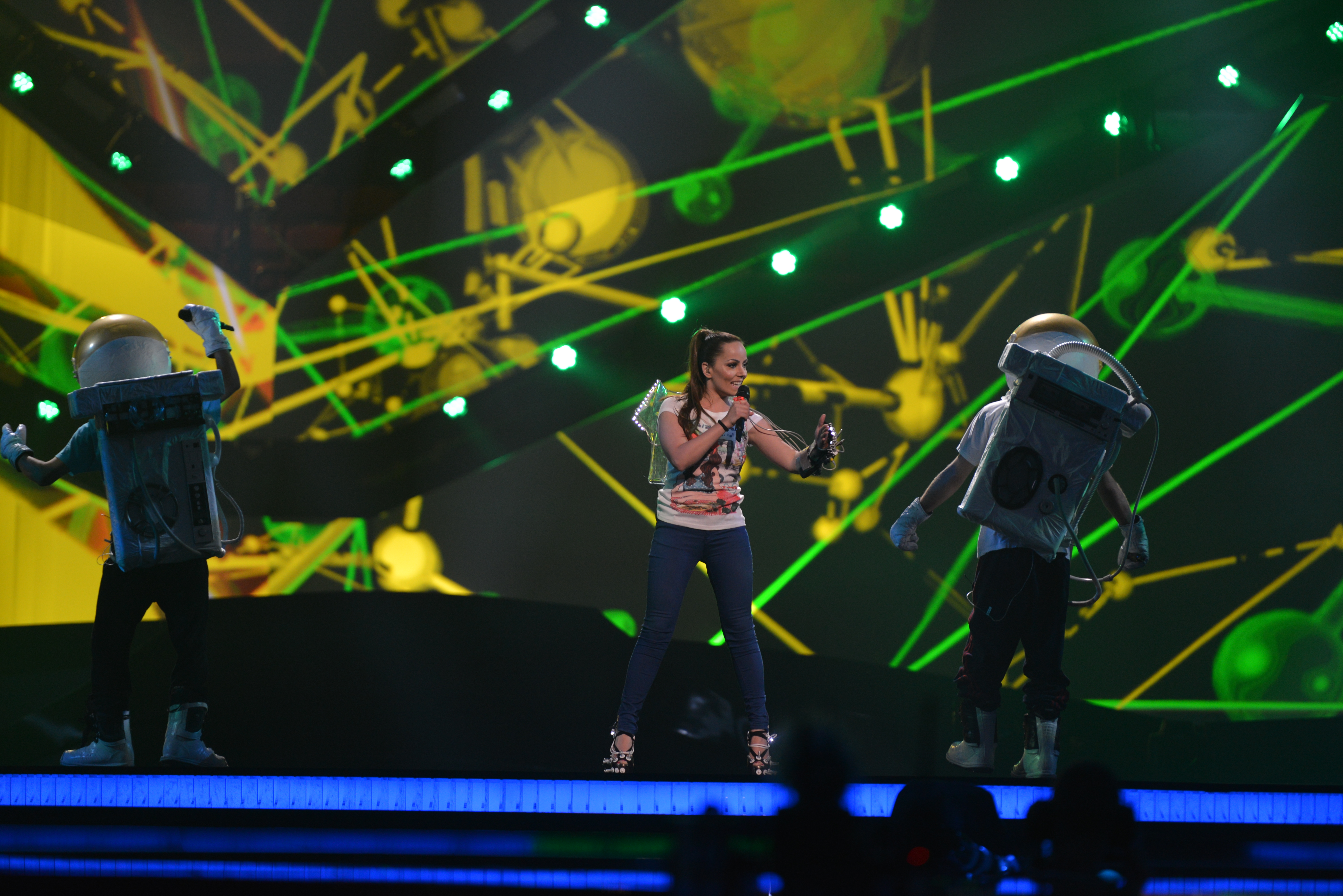 Who See representing Montenegro with the song "Igranka" (Игранка) during the first dress rehearsal of the first semi final of the Eurovision Song Contest 2013 in Malmö. (Help translate this text)